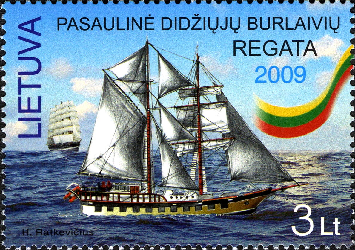 Stamps of Lithuania, 2009